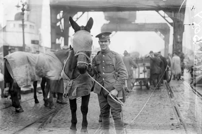 Taken at North Wall, Dublin, as soldiers of a British cavalry regiment prepare to leave Ireland with their horses. Following the signing of the Anglo-Irish Treaty in December 1921, there was a steady evacuation of British soldiers from Ireland during 1922. Date: 1922 NLI Ref.: IND_H_0136